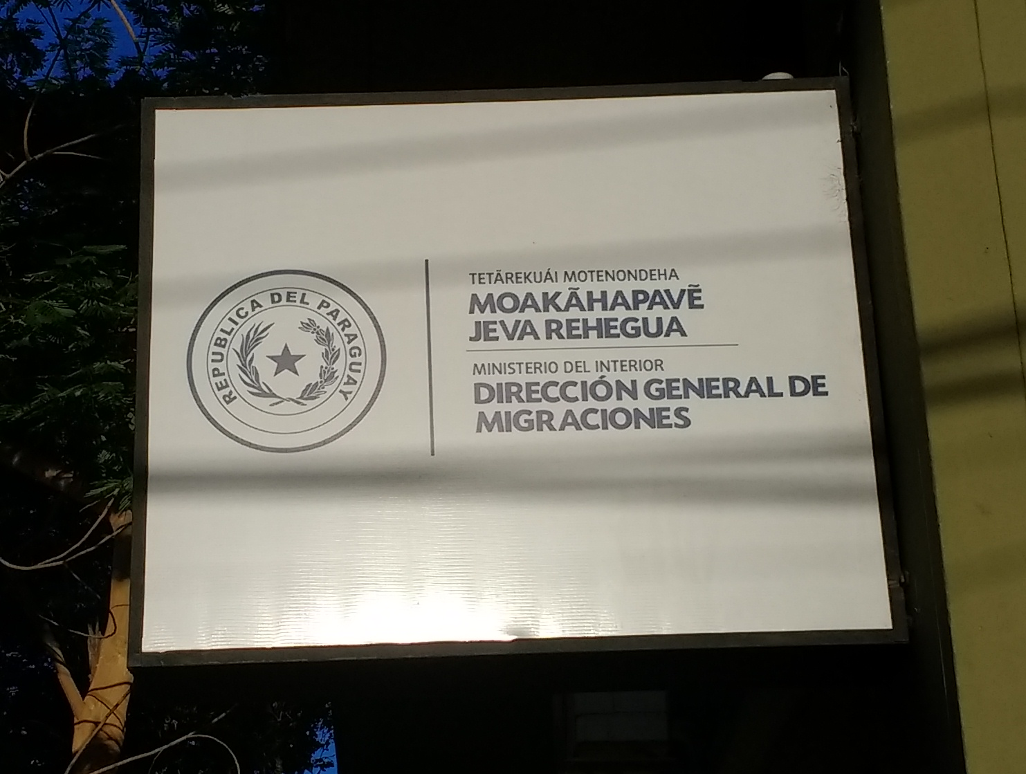 A bilingual government sign in Guaraní and Spanish in Asunción. It reads: REPUBLICA DEL PARAGUAY TETÃREKUÁI MOTENONDEHA MOAKÃHAPAVẼ JEVA REHEGUA MINISTERIO DEL INTERIOR DIRECCIÓN GENERAL DE MIGRACIONES